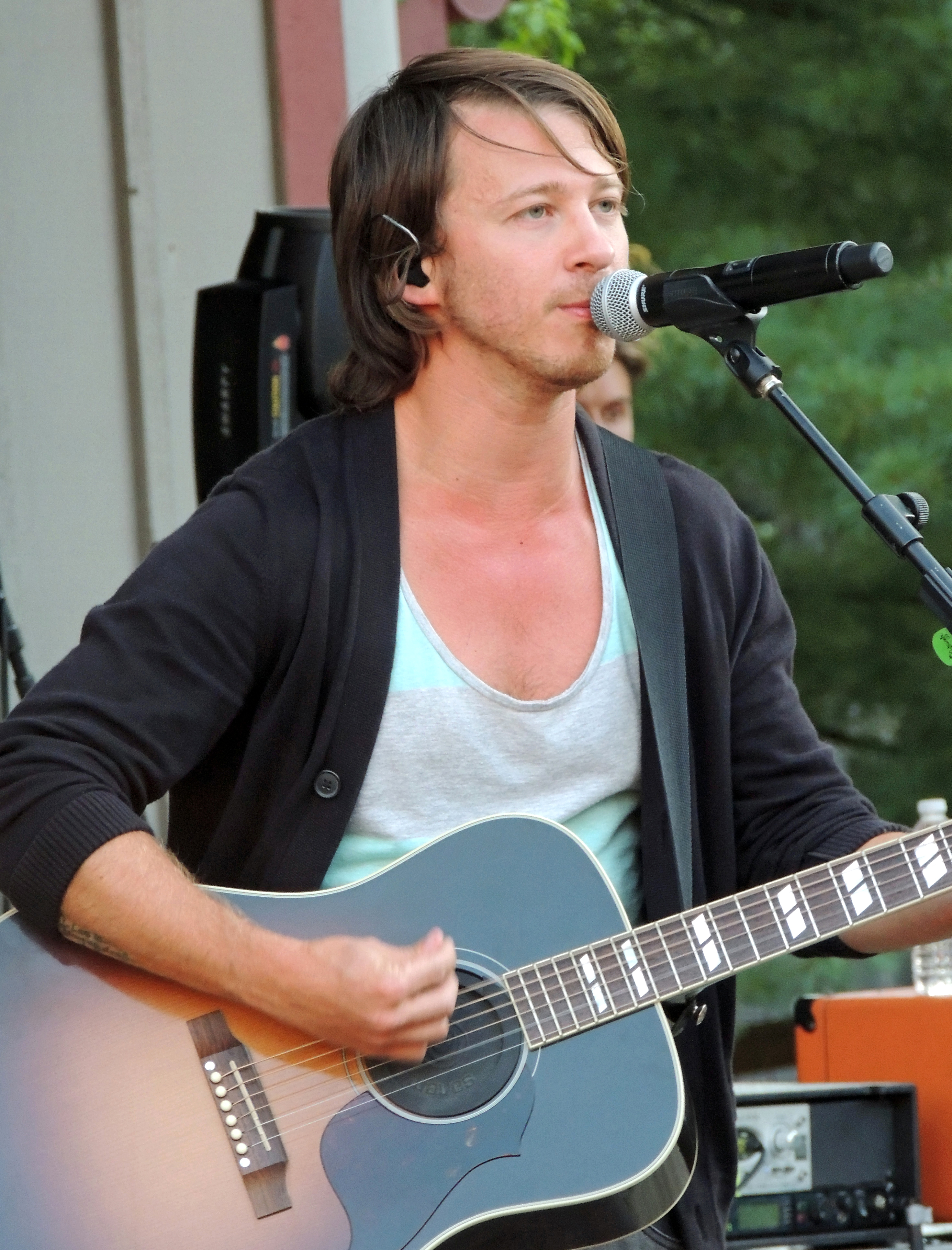 Mike Donehey, lead singer of Tenth Avenue North, performing at Six Flags St. Louis.